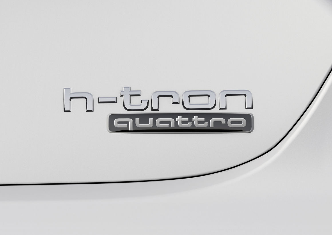 badge of h-tron quattro